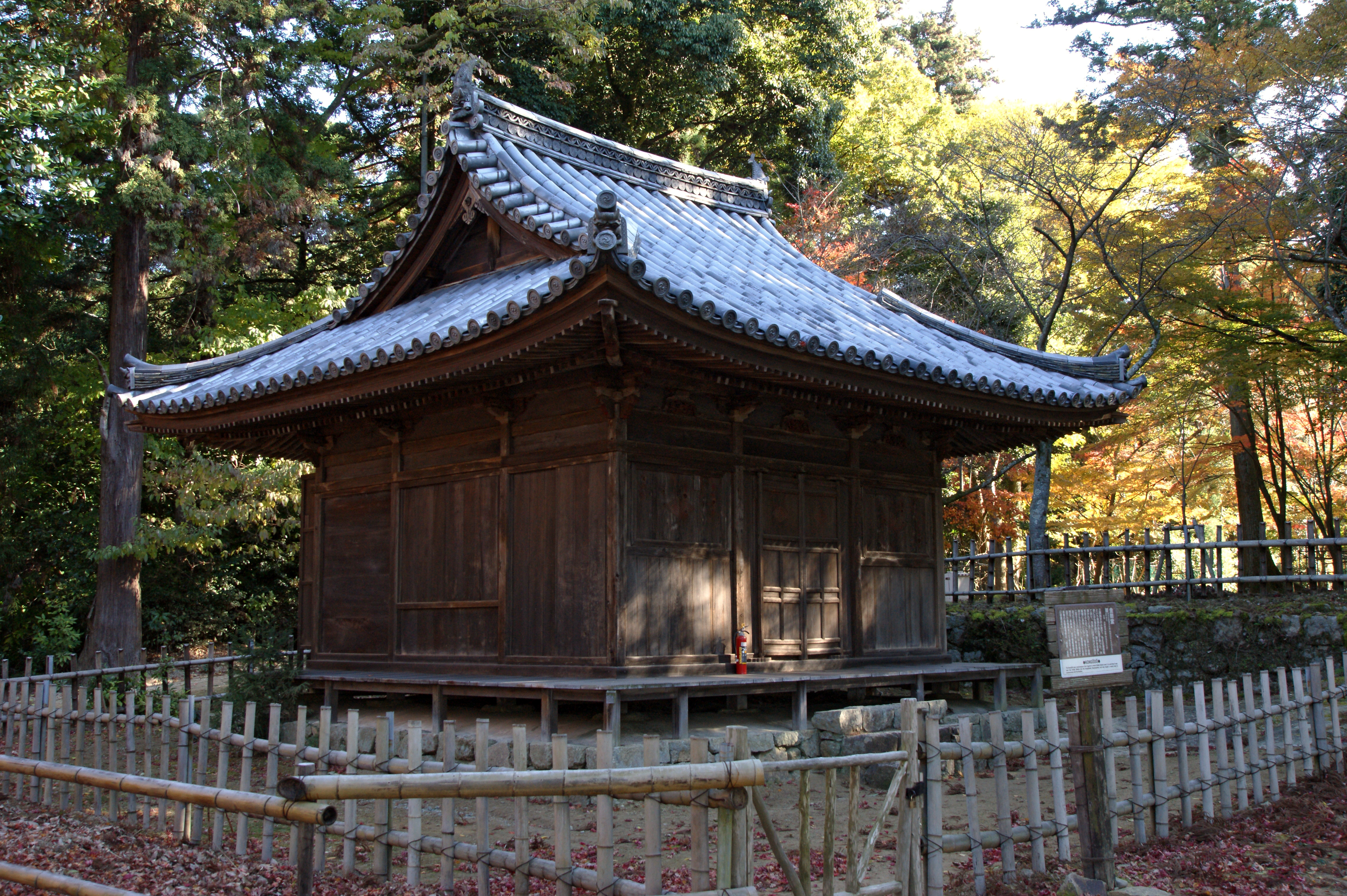 Engyoji, Himeji, Hyogo prefecture, Japan